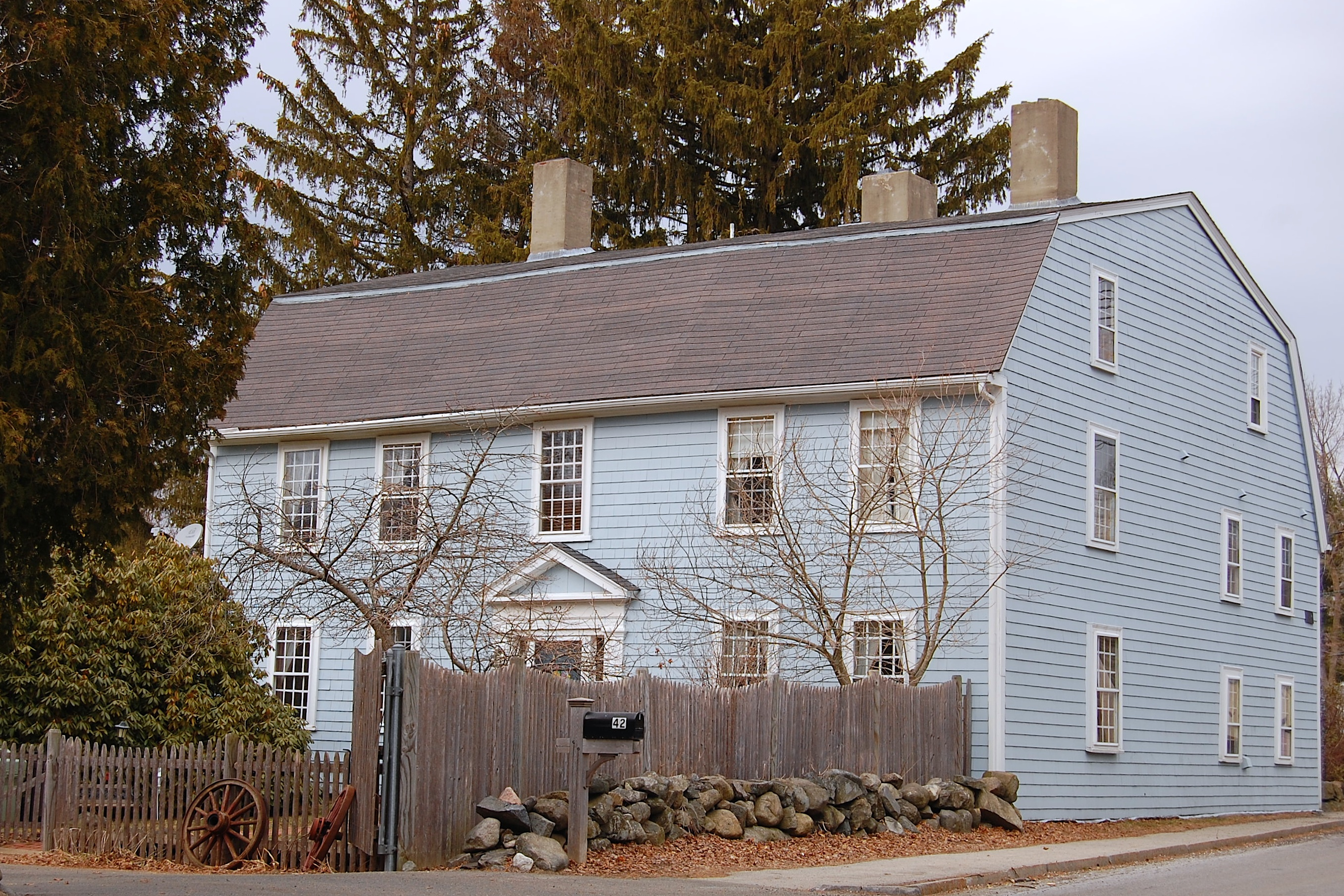 Historic home of James Putnam, Jr., at 42 Summer St., Danvers, MA., est. 1715.